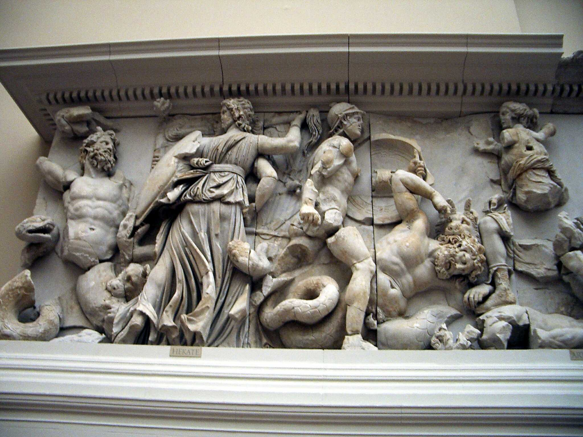 Detail of the Relief of the Pergamon Altar. left to right: Hekate fights Klytios, Oltos (?) against Artemis